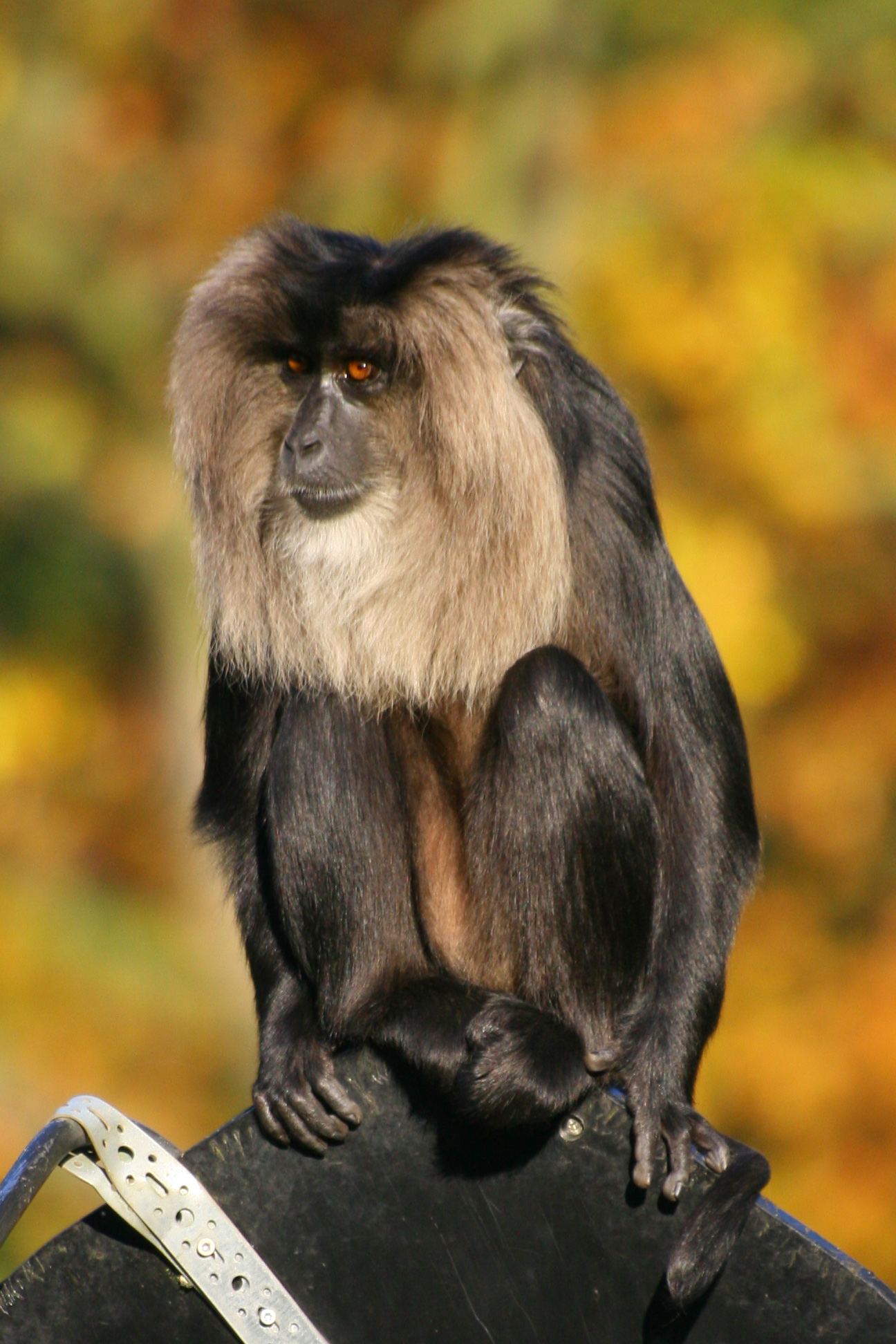 A Lion-Tailed Macaque at the Apenheul Zoo, Apeldoorn, the Netherlands